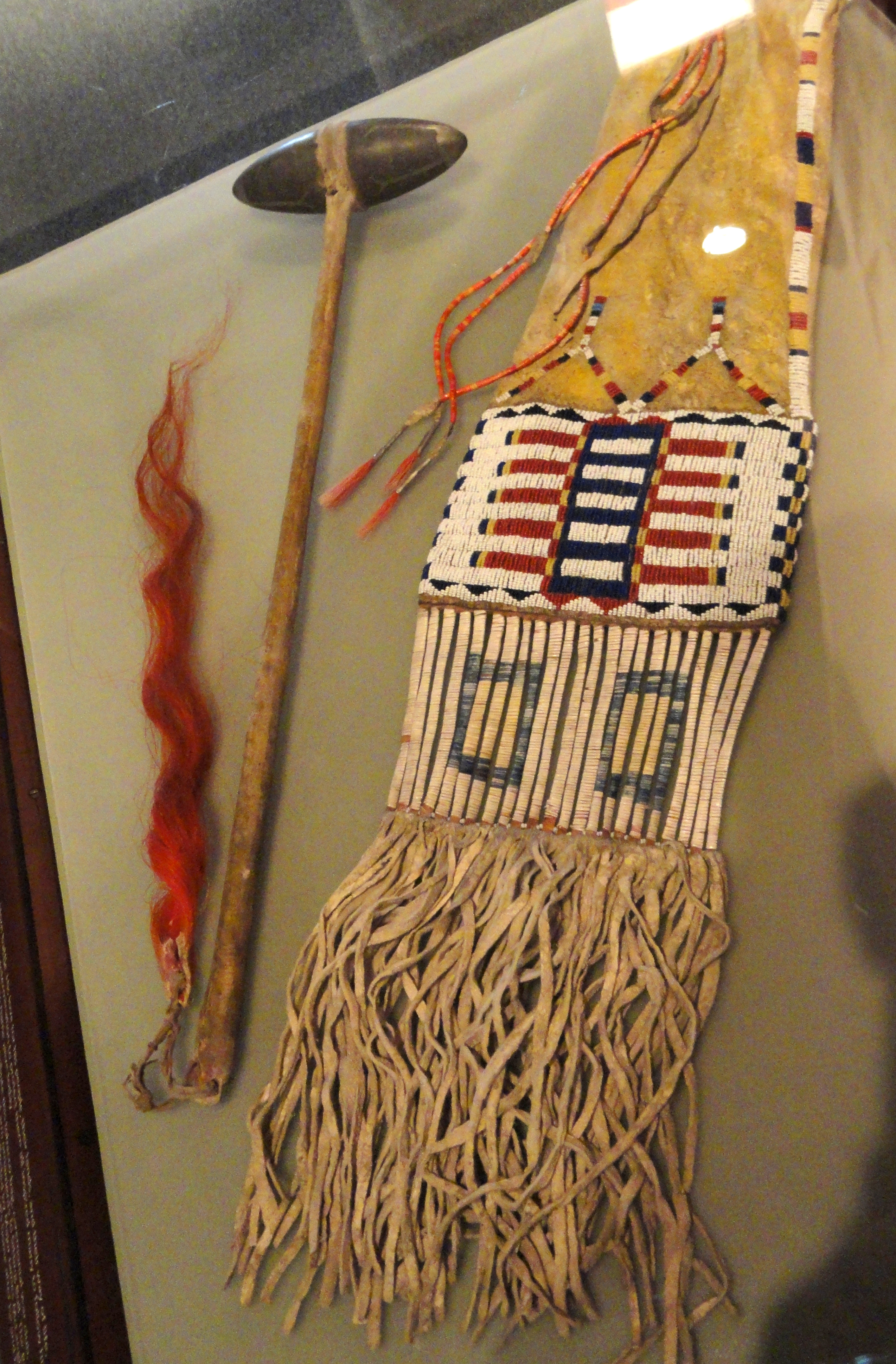 Sitting Bull's tobacco bag and ceremonial war club. Exhibit from the Native American Collection, Peabody Museum, Harvard University, Cambridge, Massachusetts, USA. Photography was permitted without restriction; exhibit is old enough so that it is in the public domain.